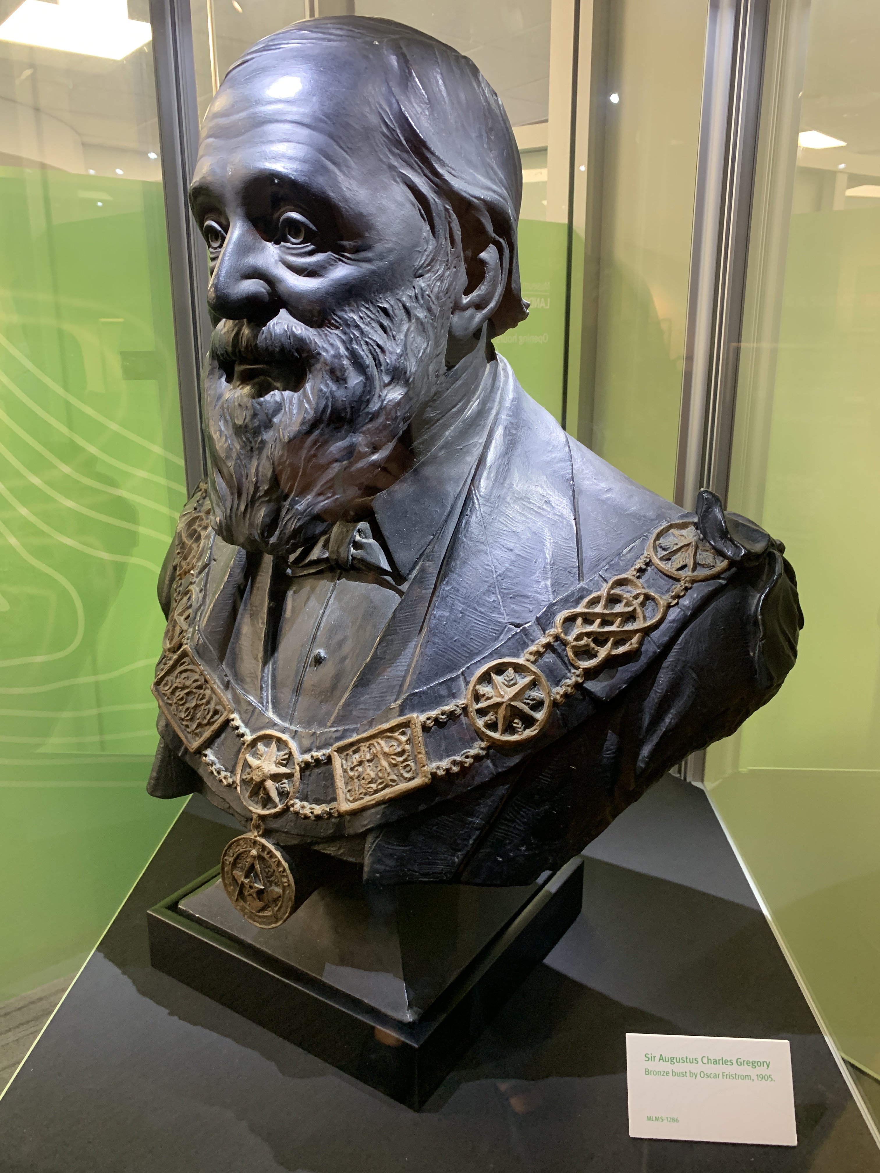 Bust of Augustus Charles Gregory, explorer and first Surveyor-General of Queensland, sculpted by Oscar Fristrom in 1905, photo taken at the Queensland Museum of Lands, Mapping and Surveying, 10 March 2020